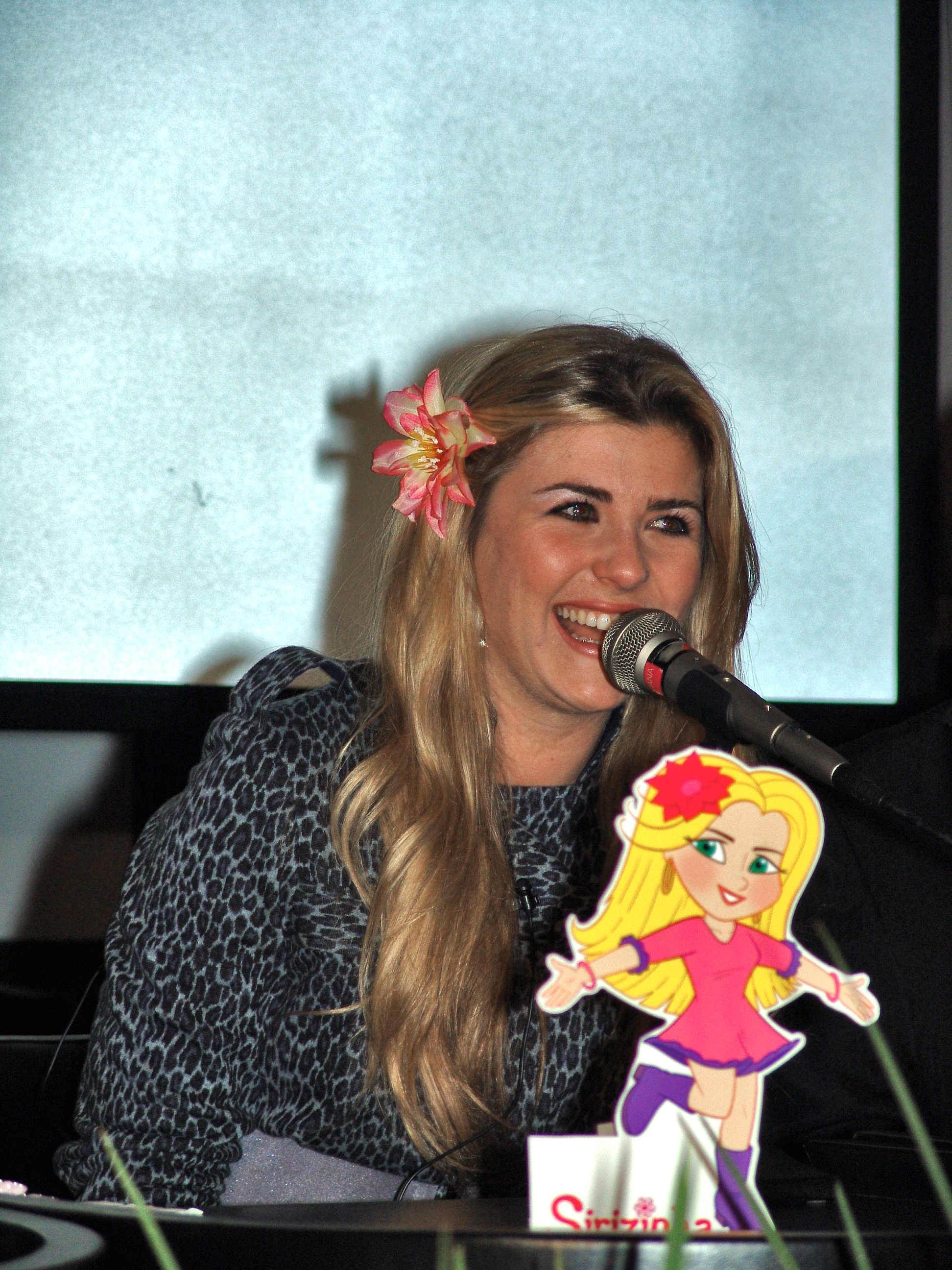 Brazilian TV hostess Íris Stefanelli.